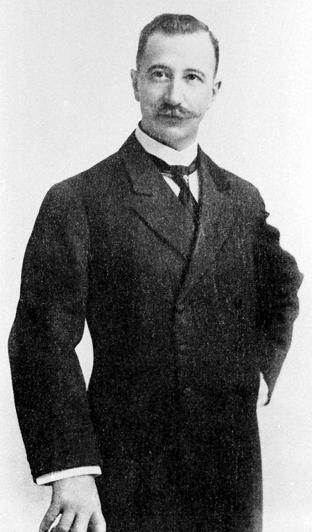 Alexandre Michaud, mayor of the Maisonneuve (Montreal)